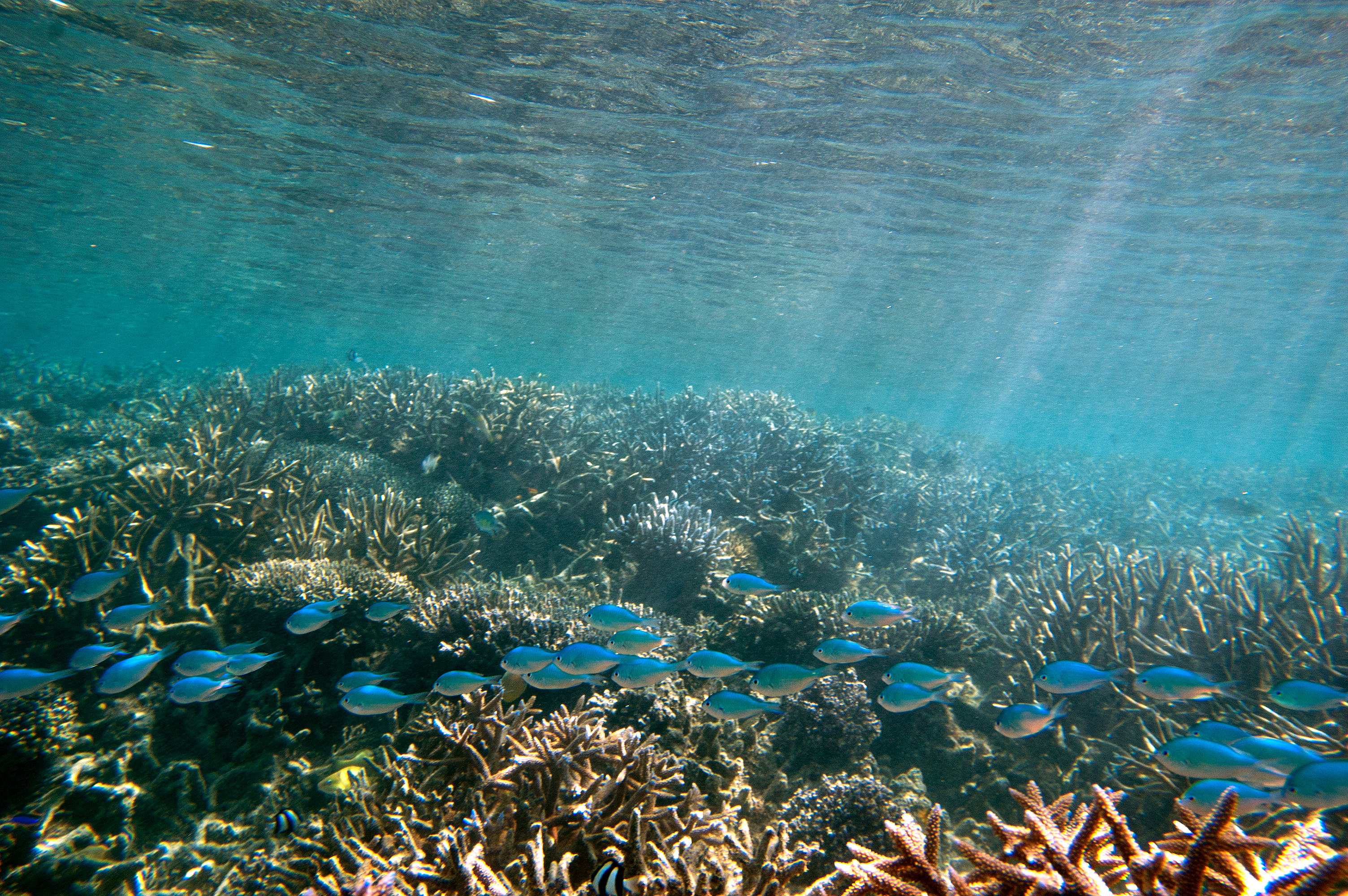 black-axil chromis Chromis atripectoralis